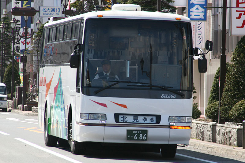 Akan Bus's intercity express bus (Hino S'elega U-RU3FSAB / Hino body ) in front of Kushiro Station, Kushiro, Hokkaido, Japan